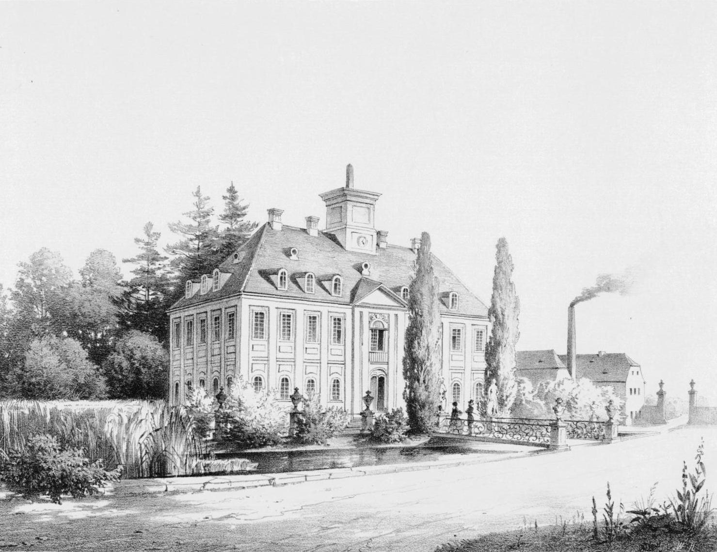 This is a scan of the historical document: Title: Album der Rittergüter und Schlösser im Königreich Sachsen Leipzig 1856